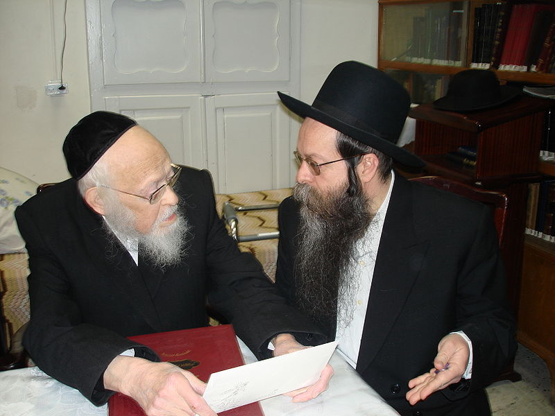 Rabbi Yosef Sholom Eliashiv